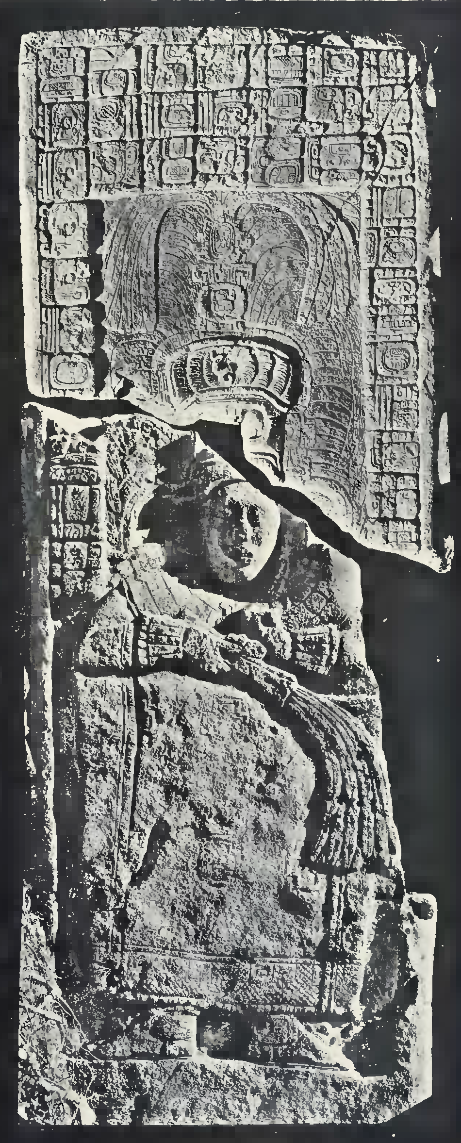 Plate XII from Researches in the Central Portion of the Usumatsintla Valley, published in 1901. Piedras Negras Stela 1.